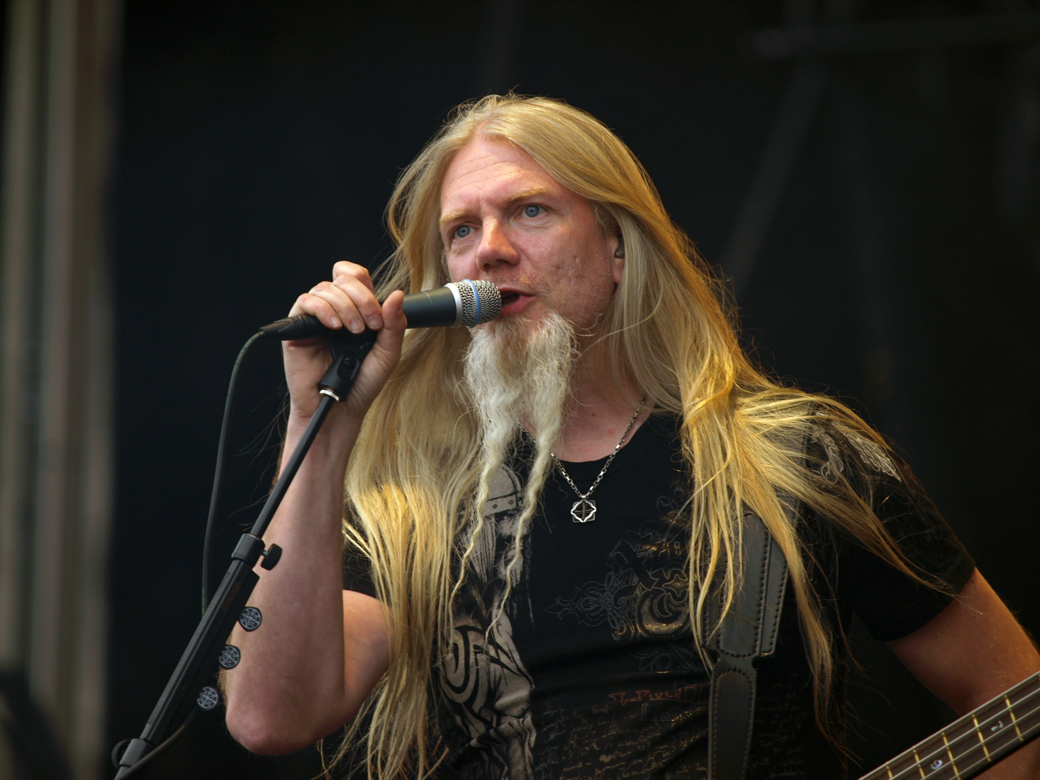 Finnish band Nightwish at Tuska Open Air 2013